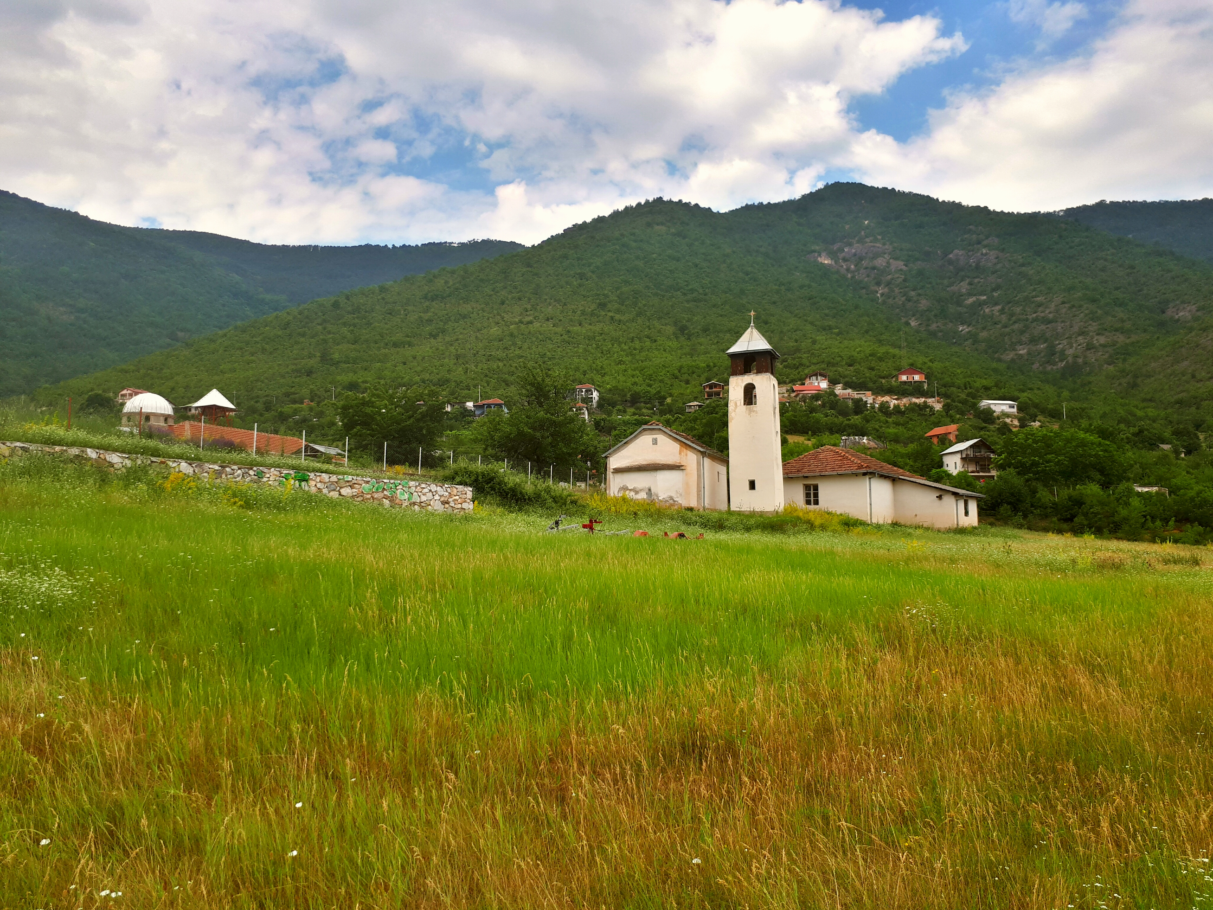 Both churches in the village Blizansko